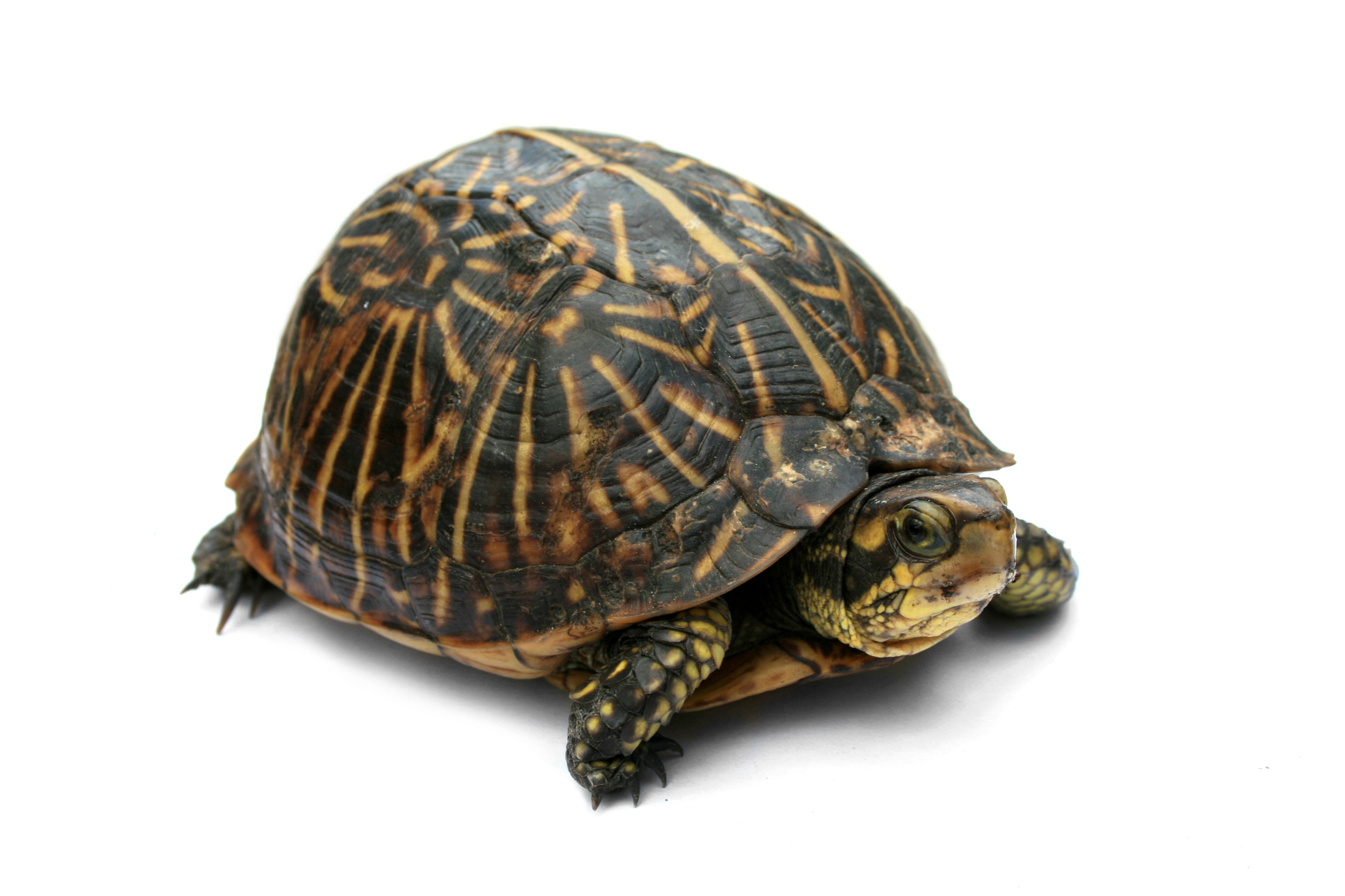 Photo of a Florida Box Turtle (Terrapene carolina bauri). Taken in Jacksonville, Florida, USA.